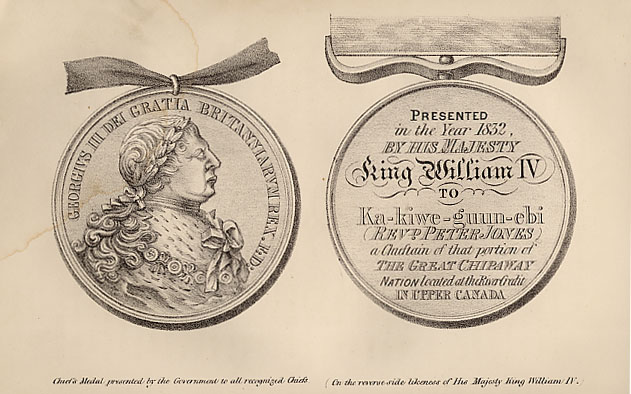 Engraving of the medal presented to Peter Jones by King Edward IV